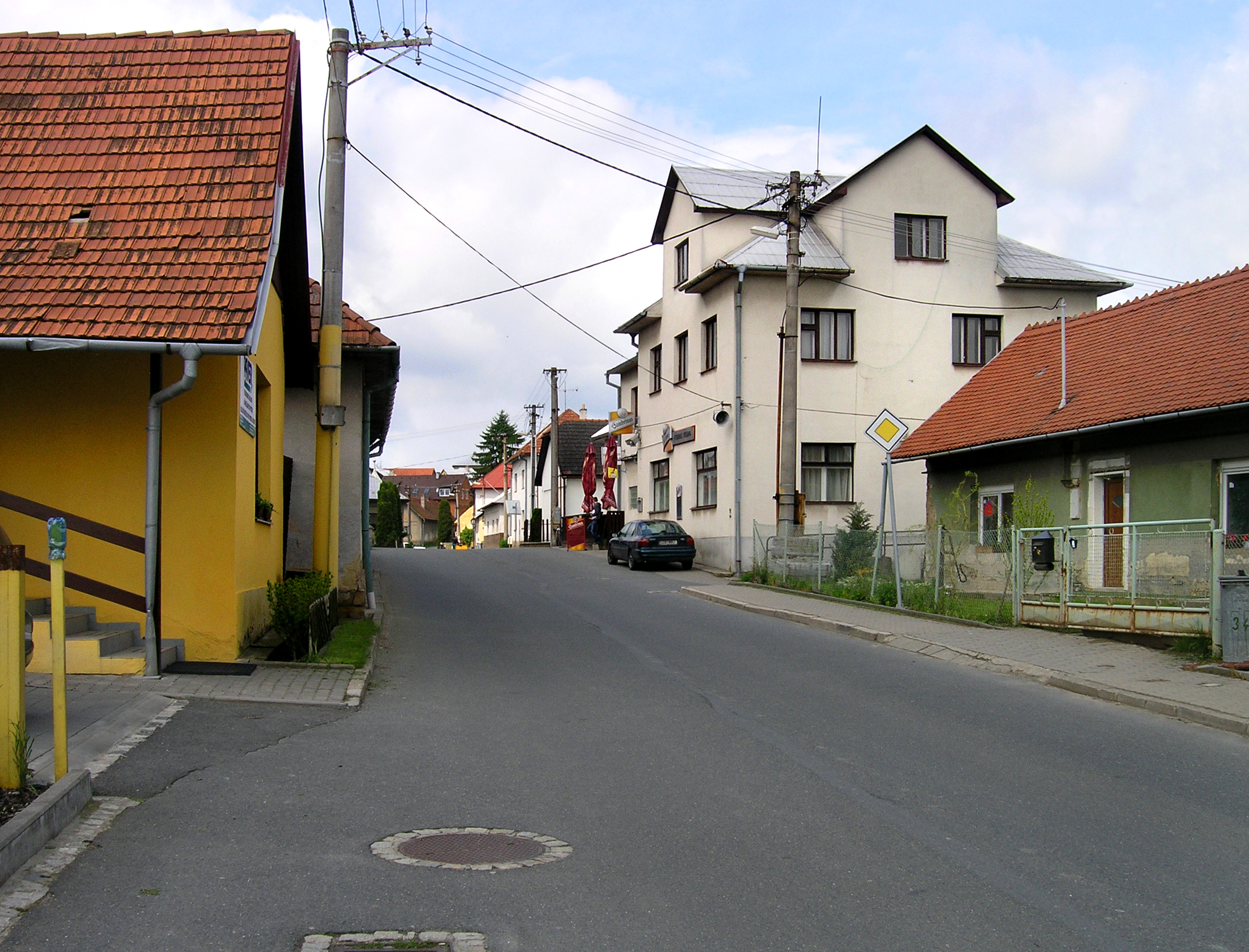 Restaurant in Veselá village, Czech Republic